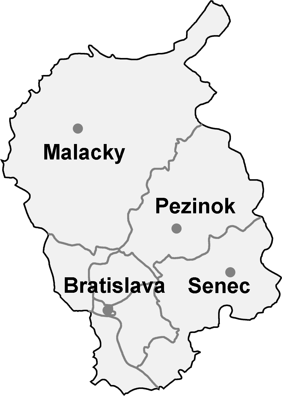 Bratislava region (kraj) with districts (okresy)